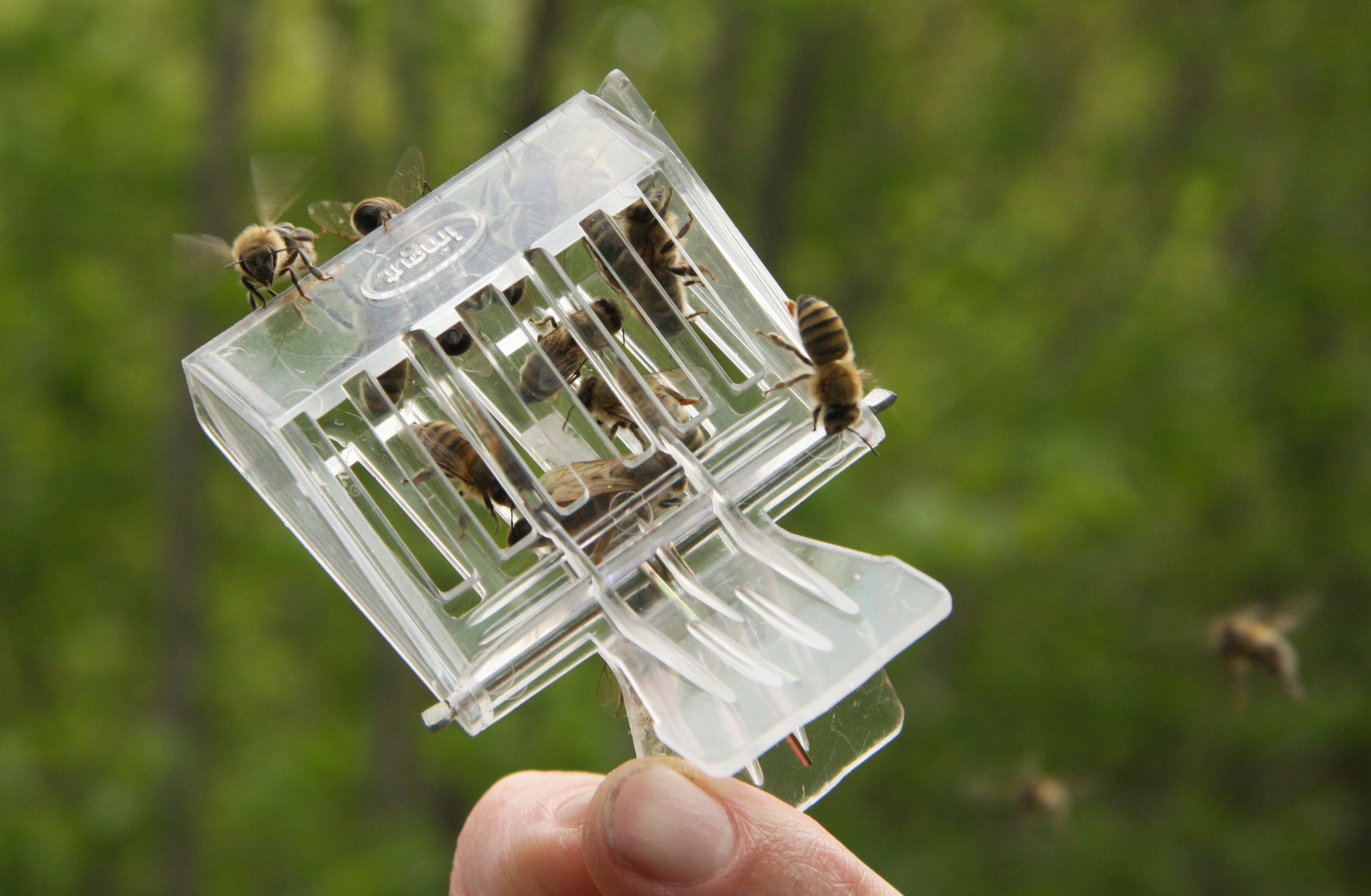 Mai 2011 Canon EOS 40D EF-S 17-85mm f/4-5.6 IS USM Creative Commons Licence BY 2.0 Quellenangabe / Credit: Photo by Maja Dumat